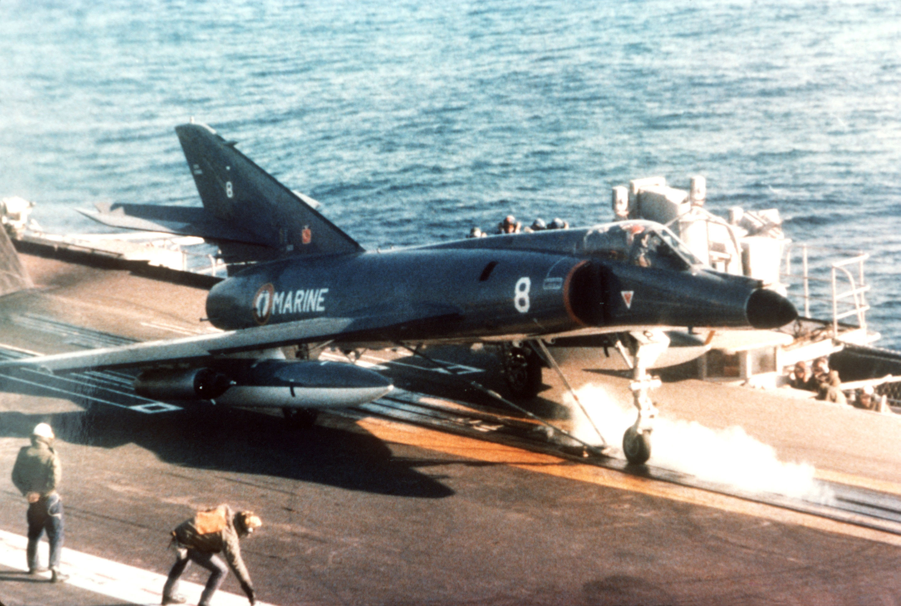 An Aéronavale Dassault Super Étendard armed with Matra rocket pods launching from the French aircraft carrier Foch (R99) off the coast of Lebanon, in 1983.